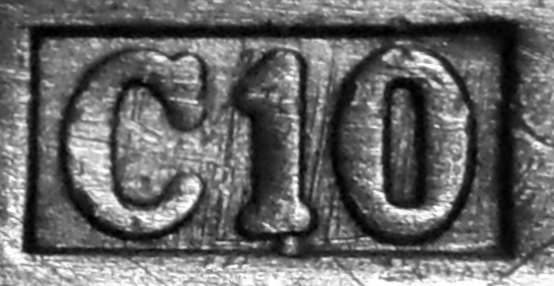 This hallmark (C10) on a Swedish silver spoon indicates that the spoon was made in 1977. Year hallmarks for gold and silver objects were introduced in Sweden in 1759.